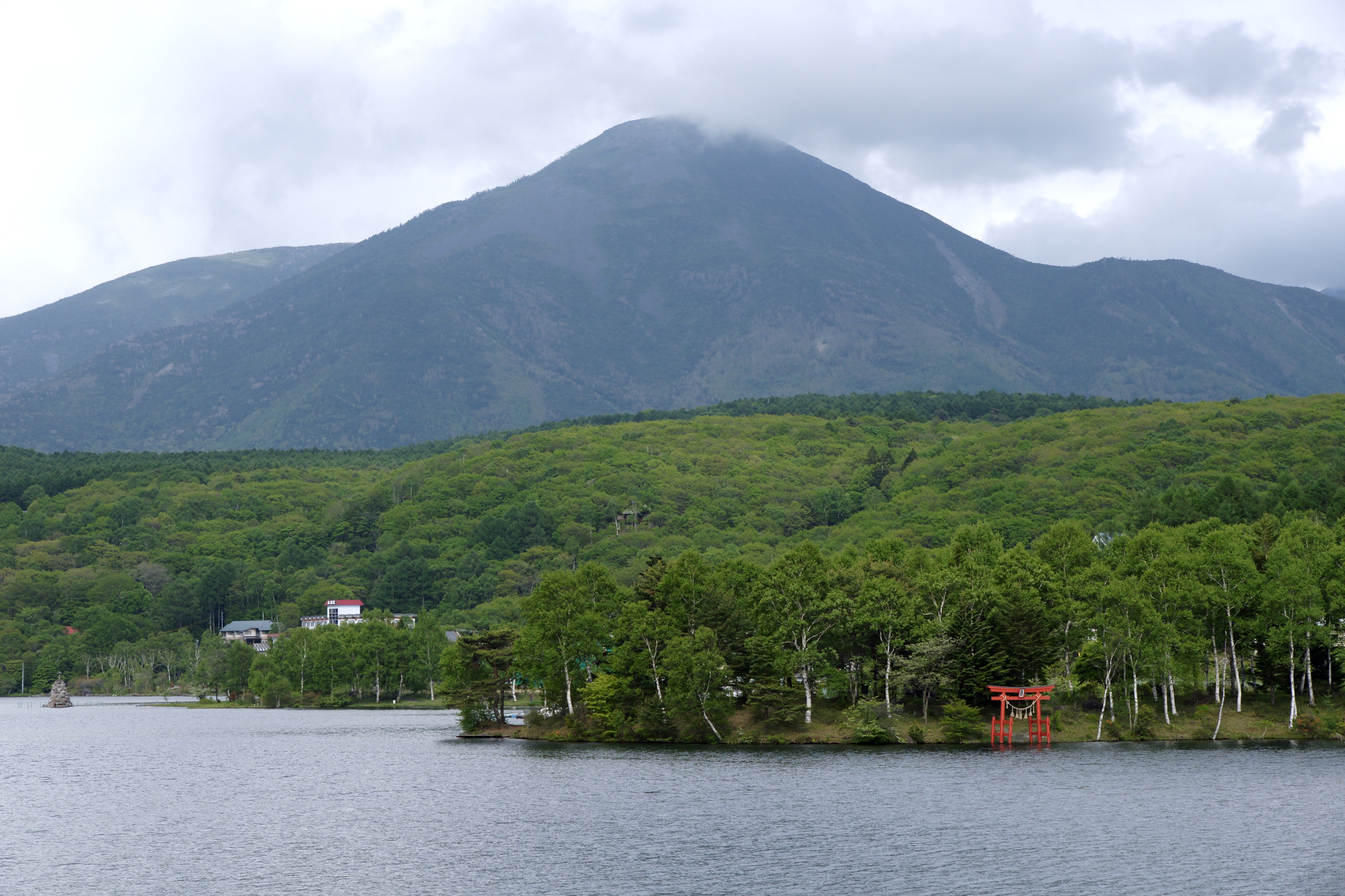 Lake Shirakaba, Chino and Tateshina, Nagano prefecture, Japan